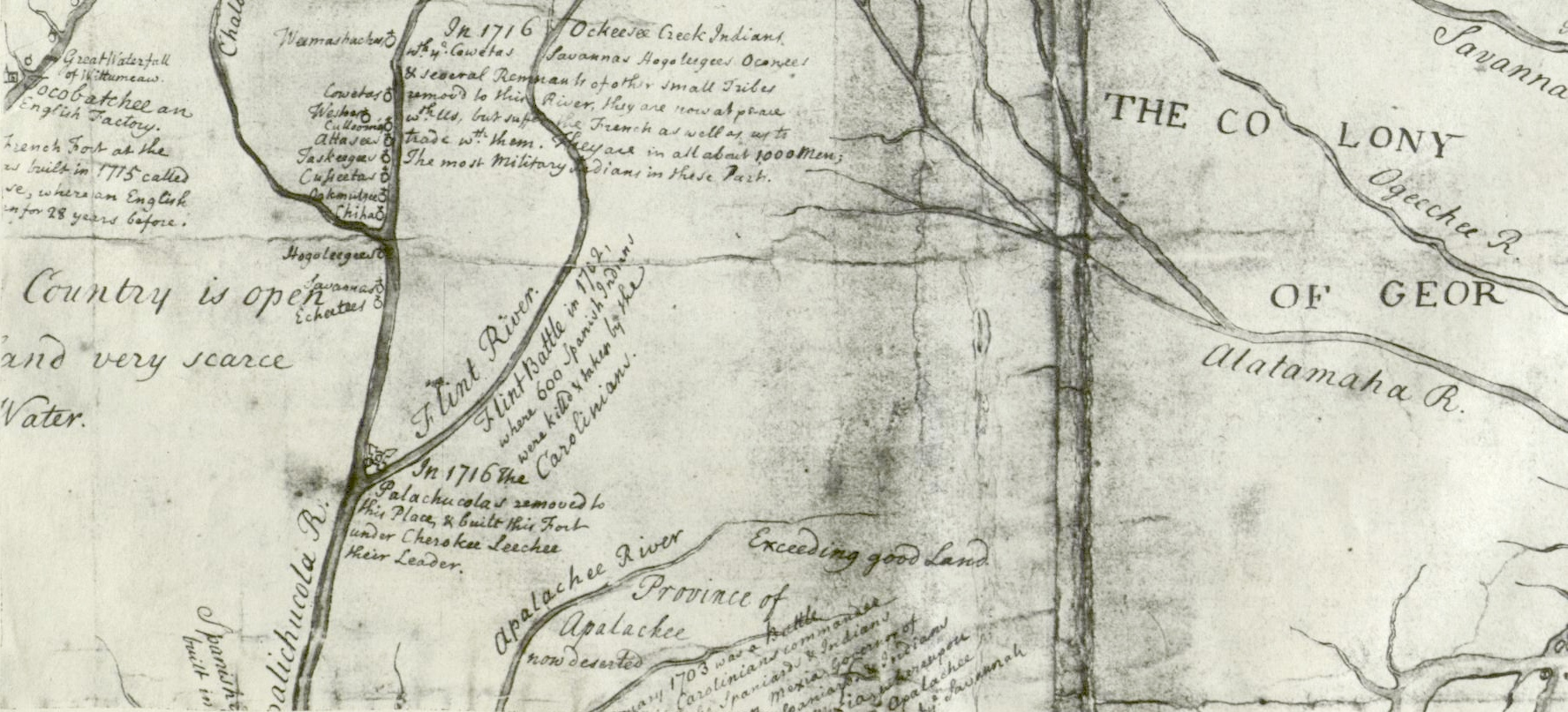 Detail from a period map showing the approximate location of the 1702 Battle of Flint River